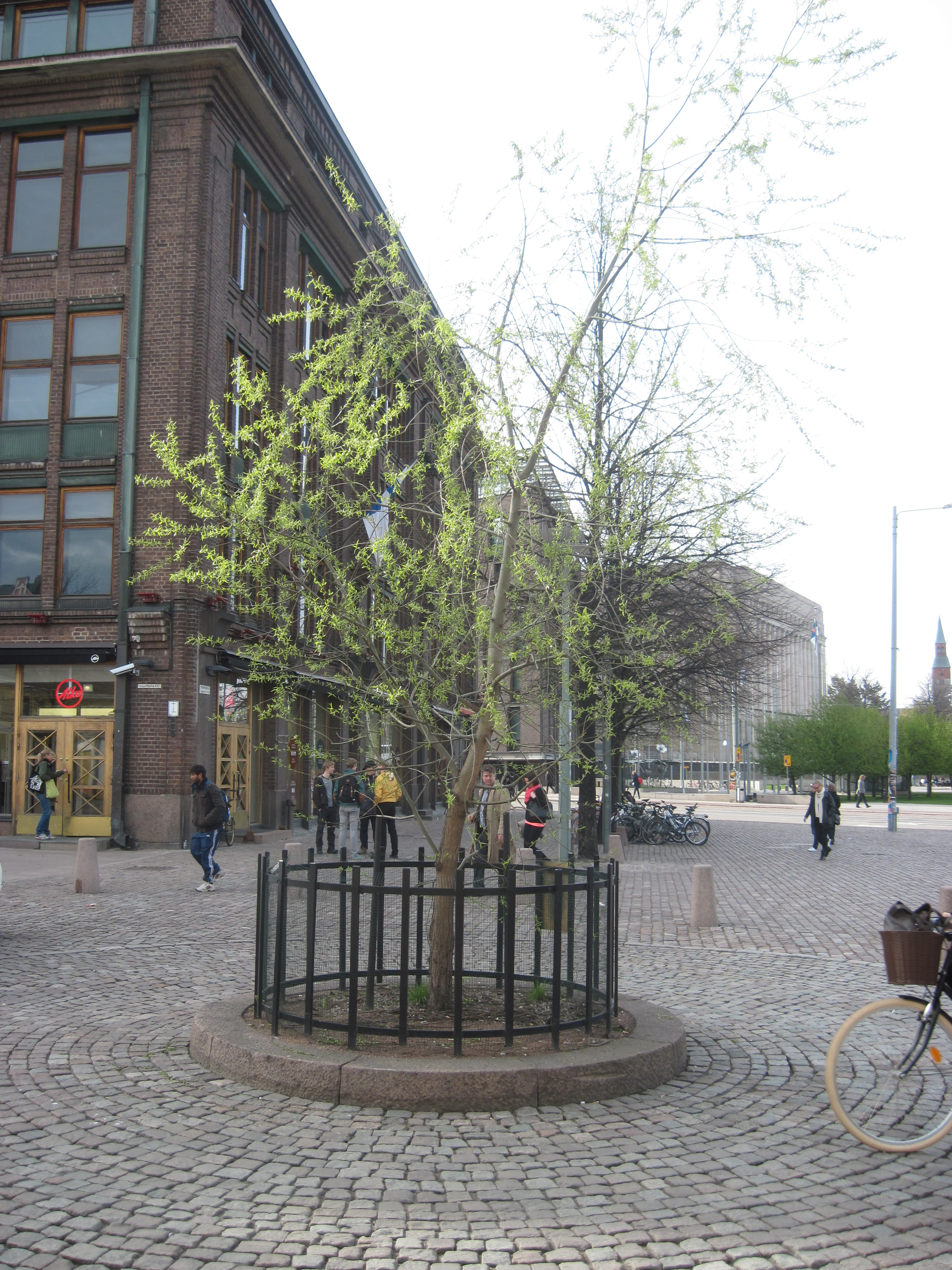 The new Lasipalatsi Willow (Salix x fragilis Lasipalatsi) in Helsinki, Finland, in May 2014